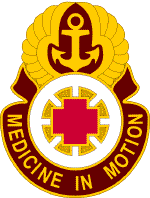 Institute of Heraldry